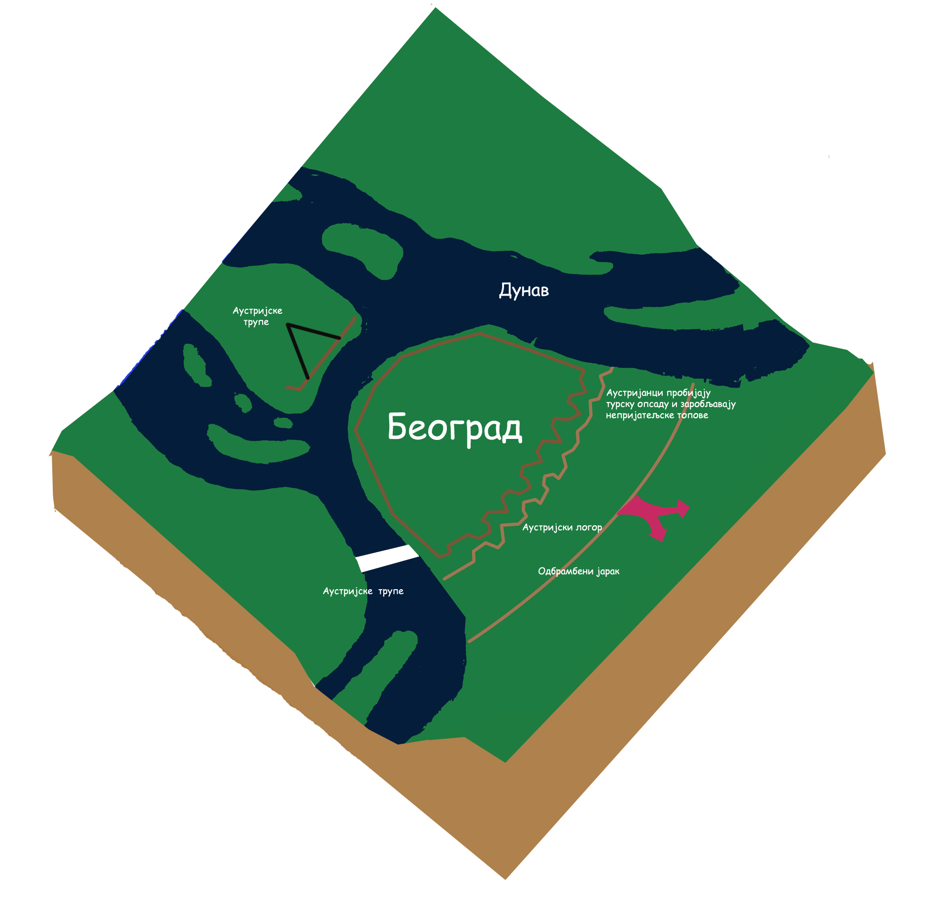 Topography map of Siege of Belgrade of Eugen of Savoy 1717